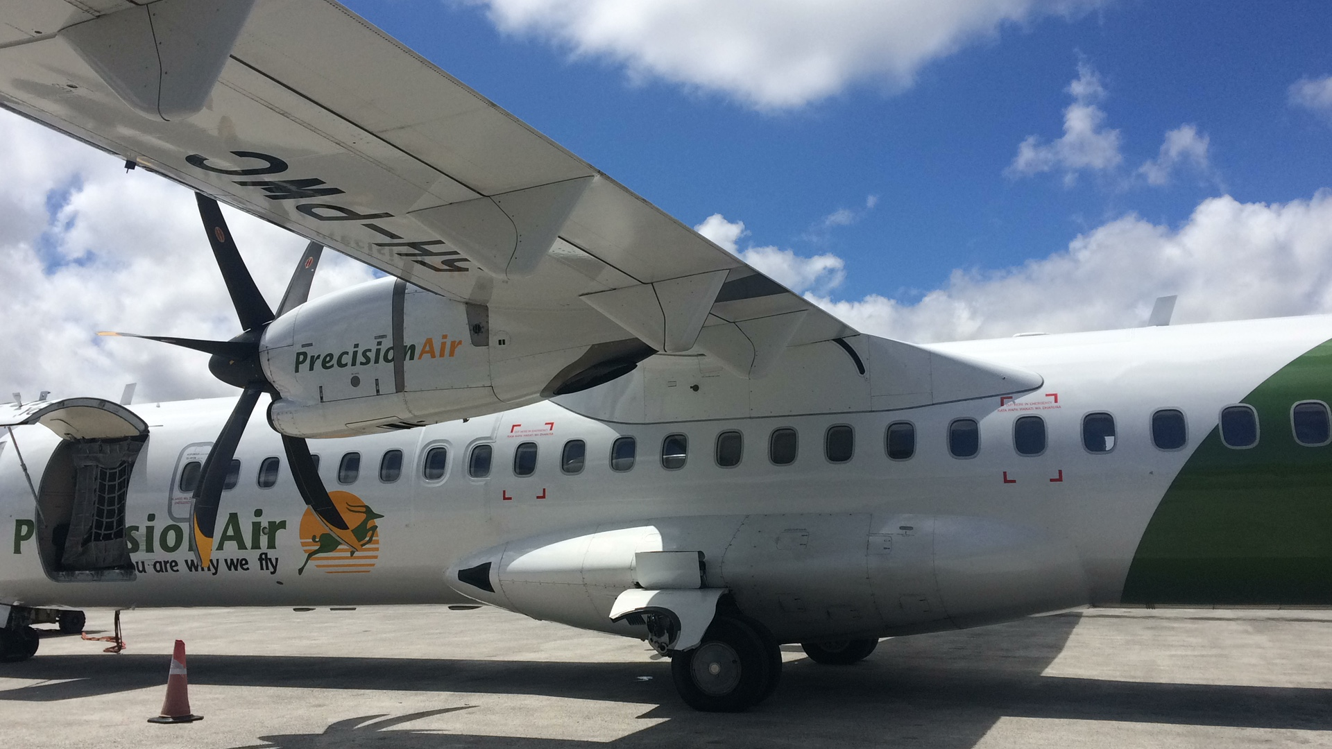 Tanzania has a great network of air-transportation and you can get from any part of the country within an hour or so. Most domestic flights are on propeller planes like the one displayed in the photo above. This is an image with the theme "Africa on the Move or Transport" from: Tanzania